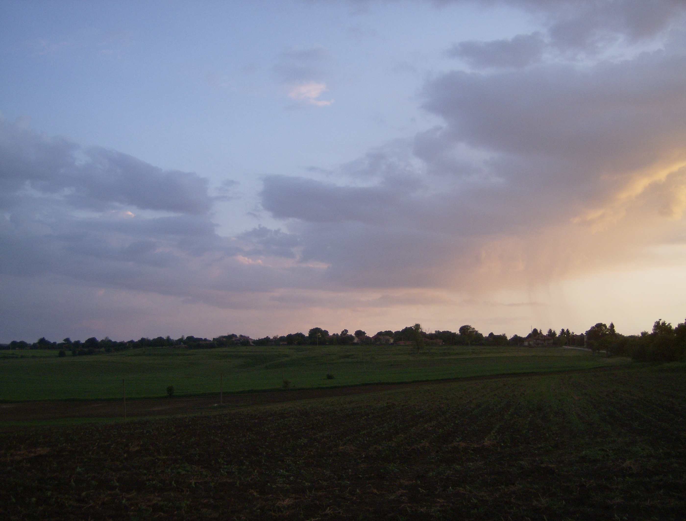 Dennica Sunrise